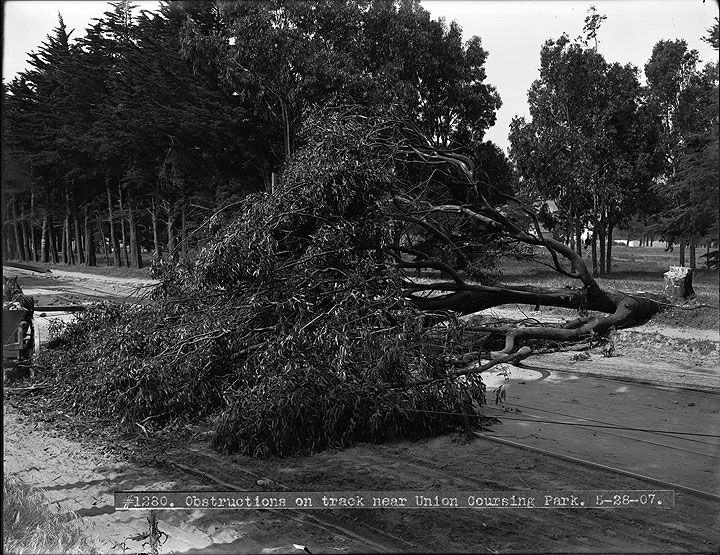 Chopped down tree obstructing tracks during San Francisco Streetcar Strike of 1909.